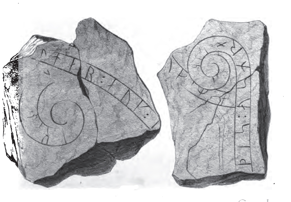 The runestone Sö 216. The inscription reads [(u)tar : auk : -... ... ...þis : a=ustr × ...uk-ma]. In English "Óttarr and ... ... met his end in the east ..."